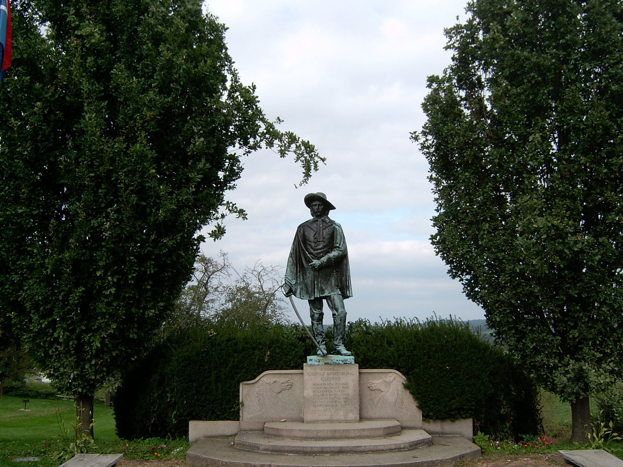 Statue of George Armstrong Custer at his birthplace in New Rumley, Ohio. Custer Memorial State Monument. Photo taken on September 26, en:2004 by Brian M. Powell.